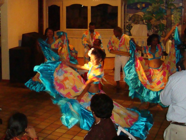 Séga, a traditional dance and performance in Mauritius, Mauritius.